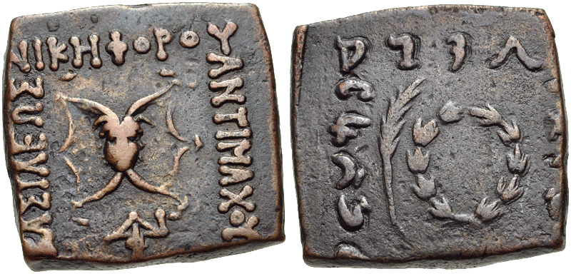 Coin of the Bactrian king Antimachus II Nikephoros with Gorgone and victory wreath.